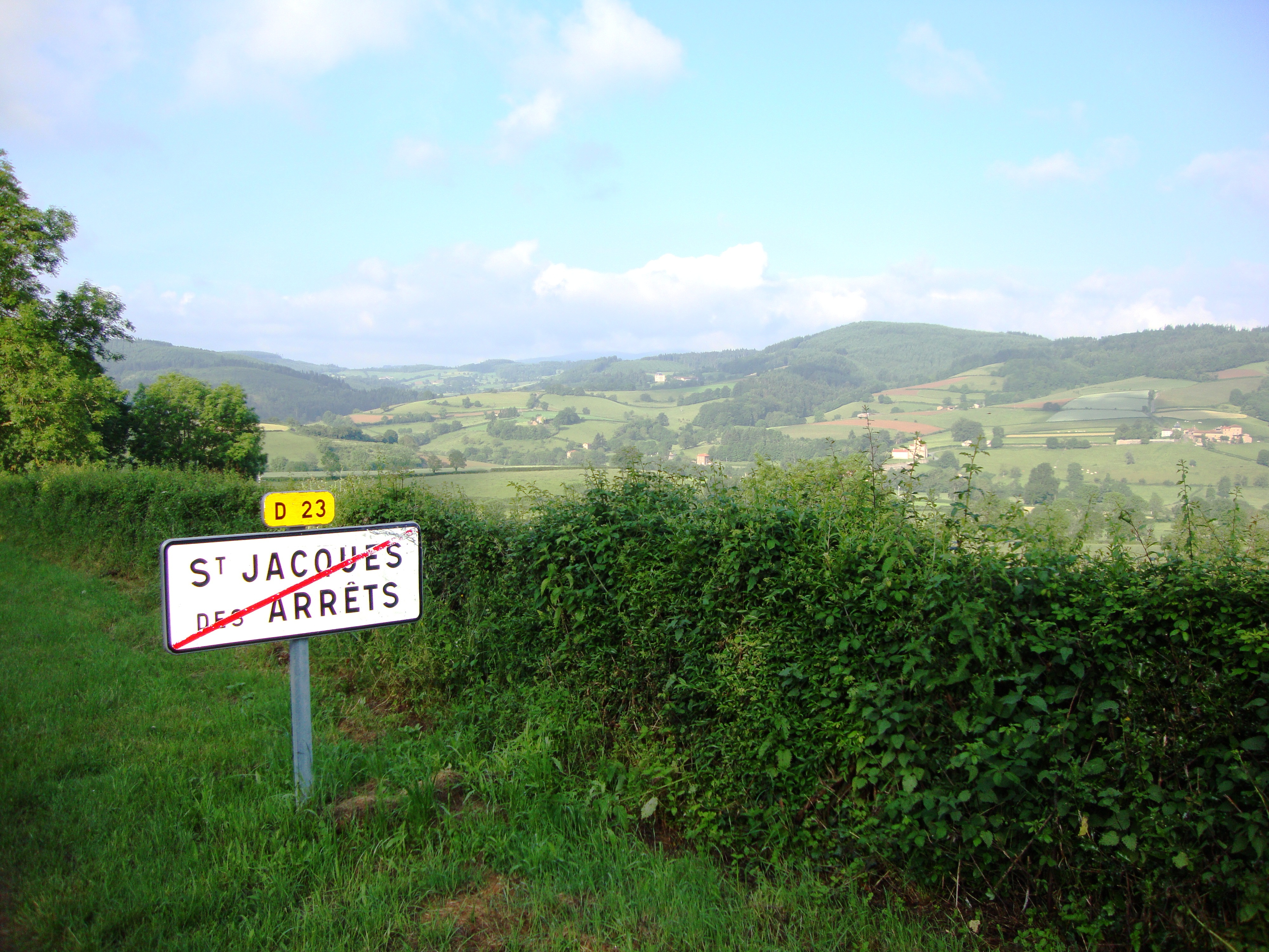 St.Jaques-des-Arrêts (Rhône, Fr) landscape